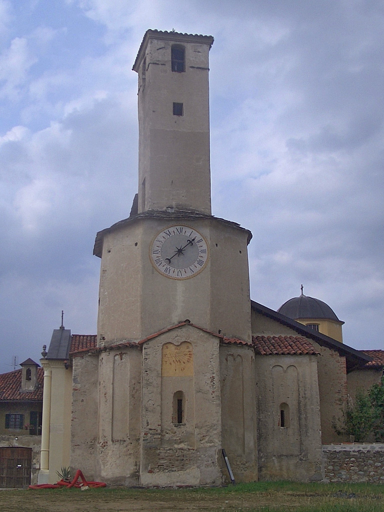 San Ponso (province of Turin), the romanesque baptistery (VIII century)